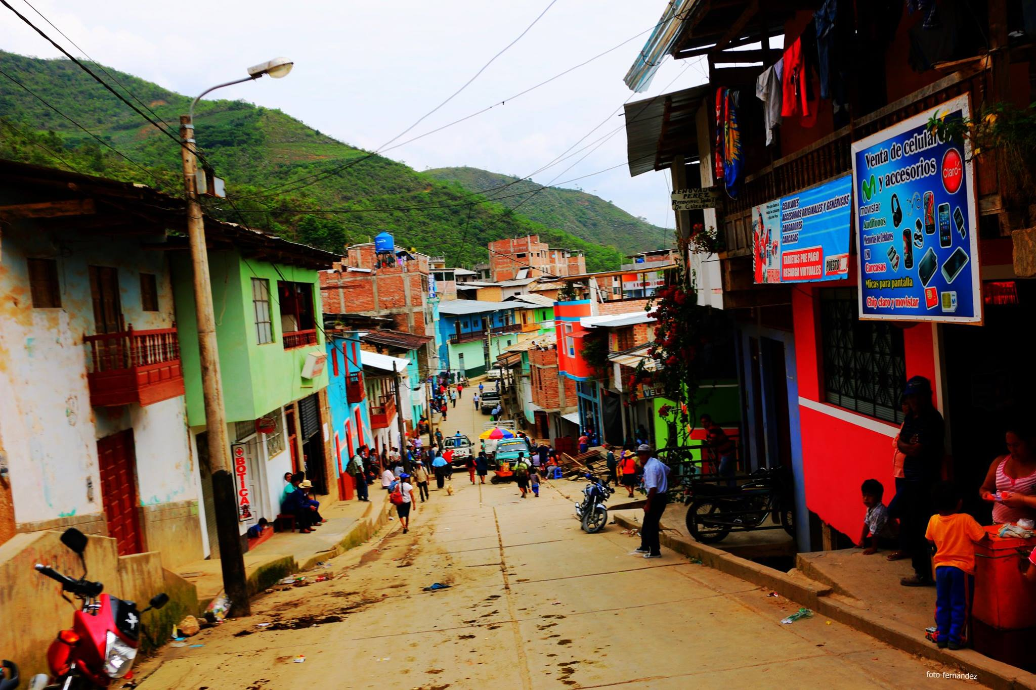 These images are of own authorship, and any attempt of usurpation of third parties or by interested entities I accept the rules of the right of intellectual property